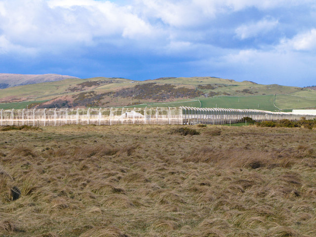 Haverigg Prison "Wall" More a high fence, it being an open prison. Built on the site of WW2 Haverigg airfield.